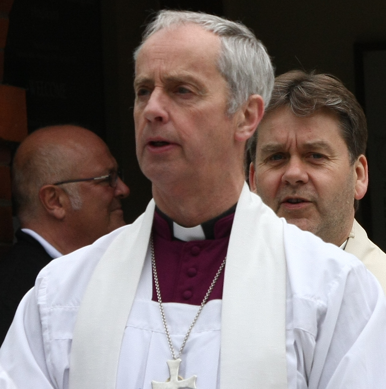 Rt Revd Martin Warner, Bishop of Whitby, at Walsingham